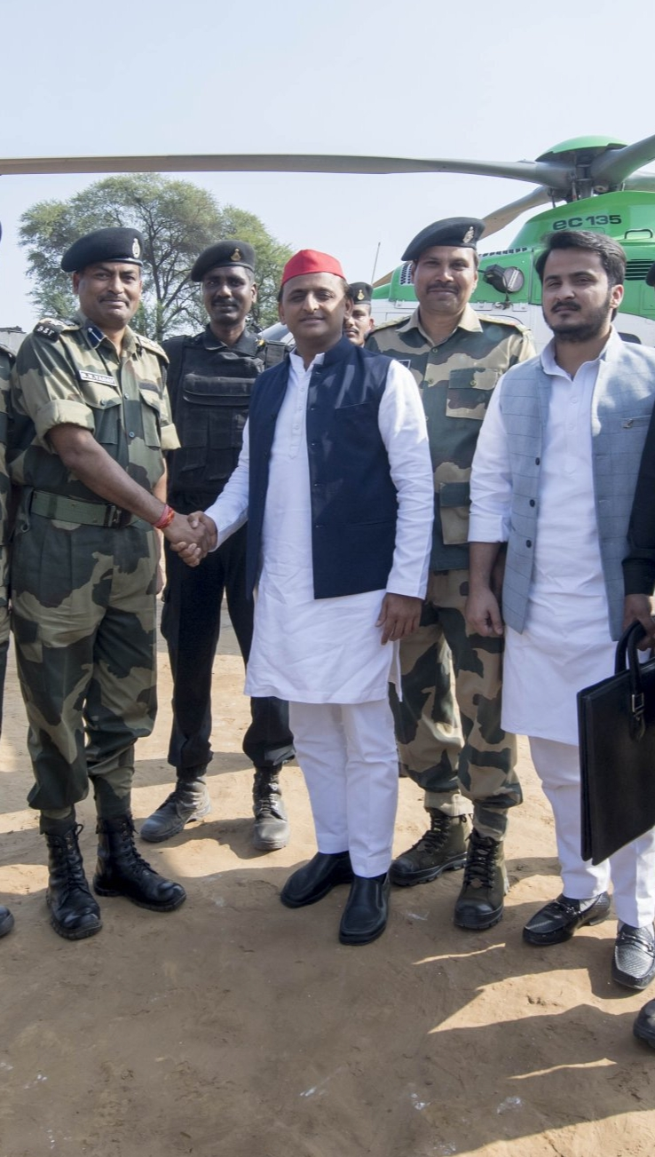 Abdullah Azam khan